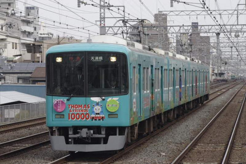 Keihan 10000 series EMU set 10003 in Thomas the Tank Engine livery approaching Noe Station